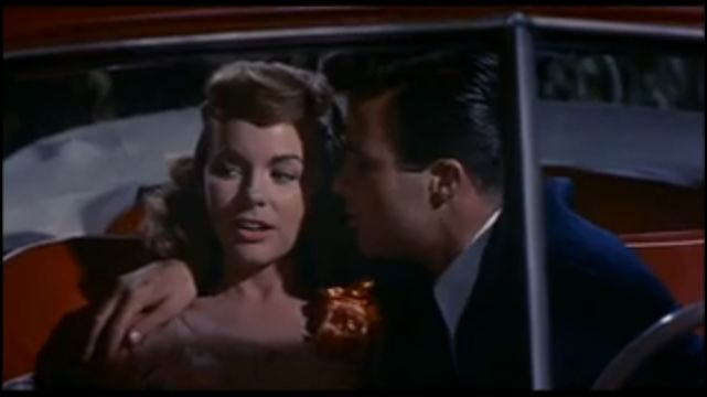 Betty Anderson (played by Terry Moore) & Rodney Harrington (played by Barry Coe)